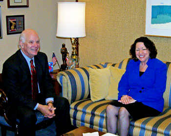 Senator Benjamin Cardin of Maryland with Supreme Court nominee Sonia Sotomayor.